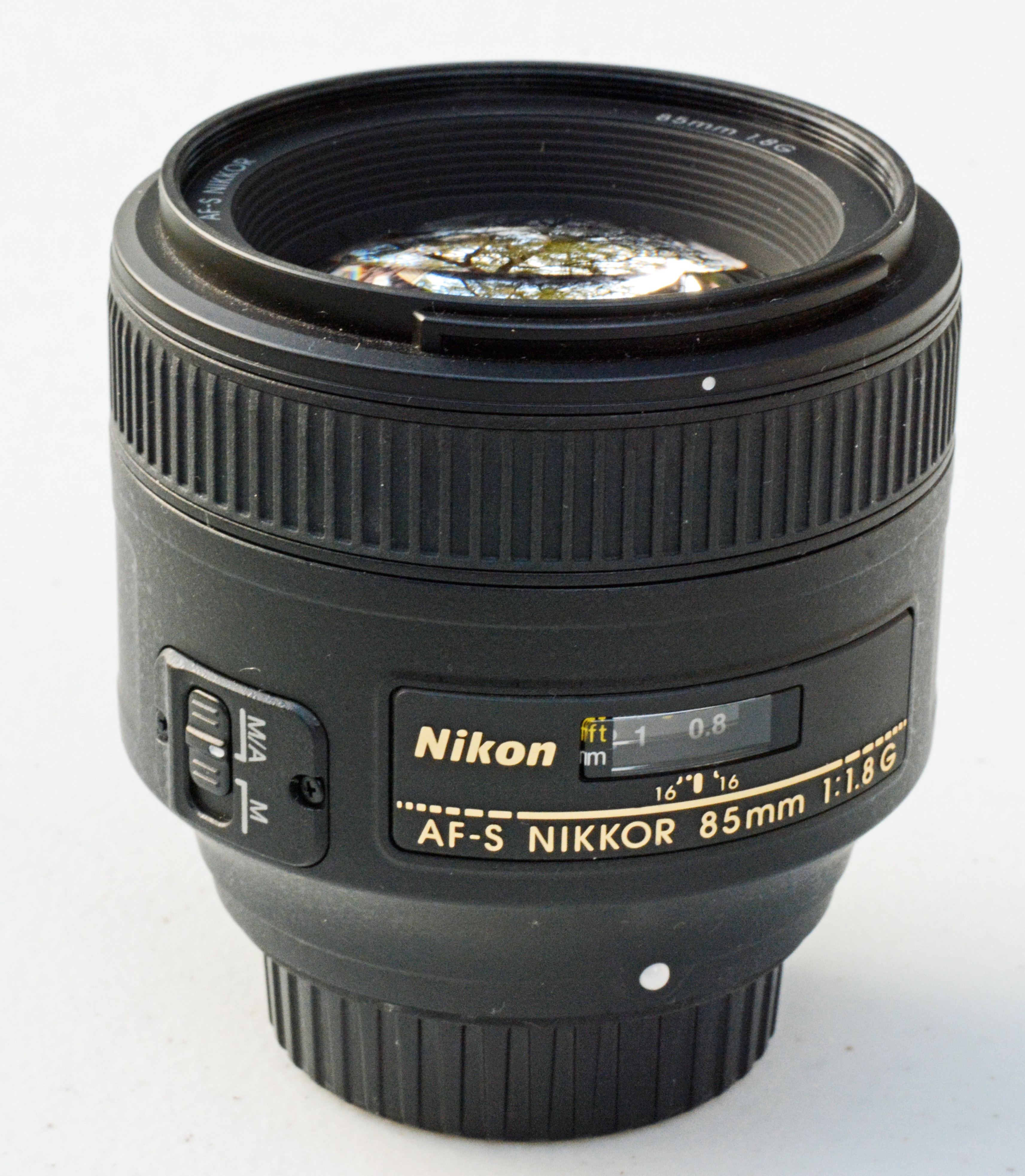 Nikon Nikkor 85mm f/1.8G AF-S lens